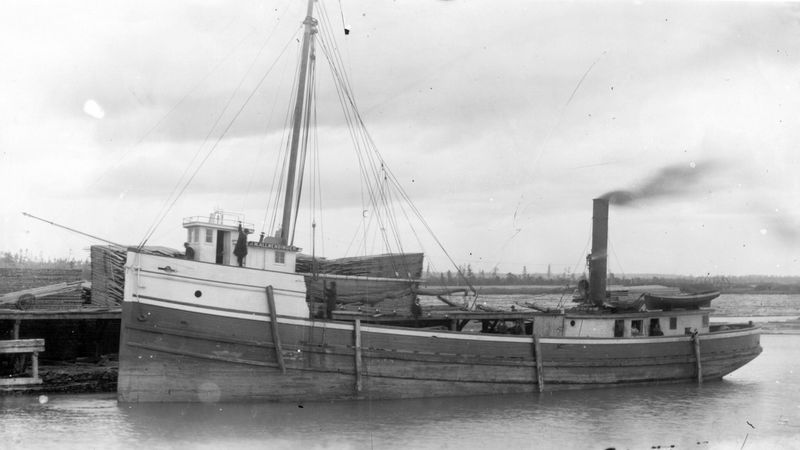 The steam barge J.M. Allmendinger prior to her sinking